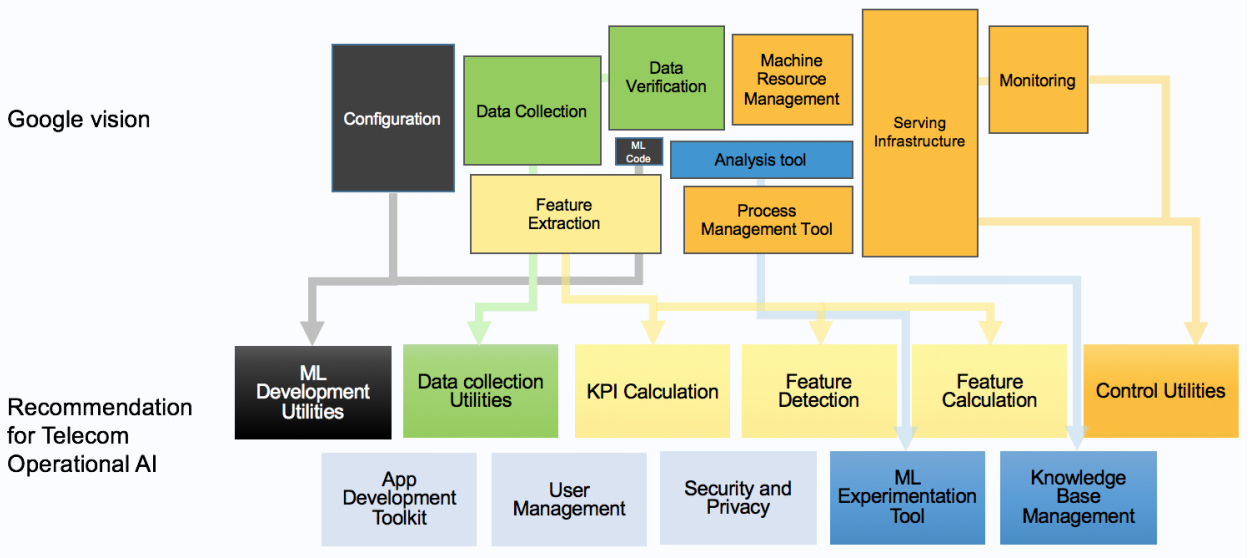 Operational AI key components for telecom industry. From white paper, "Implementing Operational AI in Telecom Environments". Authors: Pablo Tapia, Enrique Palacios, Laurent Noël, Petri Hautakangas of Tupl Inc.